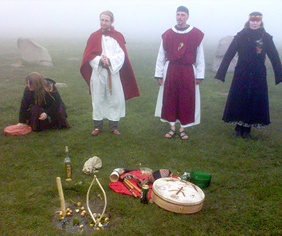 Forn Sed: Sveriges Asatrosamfund (i.e. The Swedish Asatru Society) holding a blót (an Asatru ceremony). The three ceremony leaders at the Spring blót in the ancient monument Ale stenar near Kåseberga at Österlen in Scania in the south of Sweden in connection with the Annual Thing och the Society 26th April 2008. Note that the altar is the actual ground, and that the cult images has the simple forms of symbolic genitals for the fertility deities (a male genital for the Old Norse god Freyr and a female genital for the Old Norse goddess Freyja).